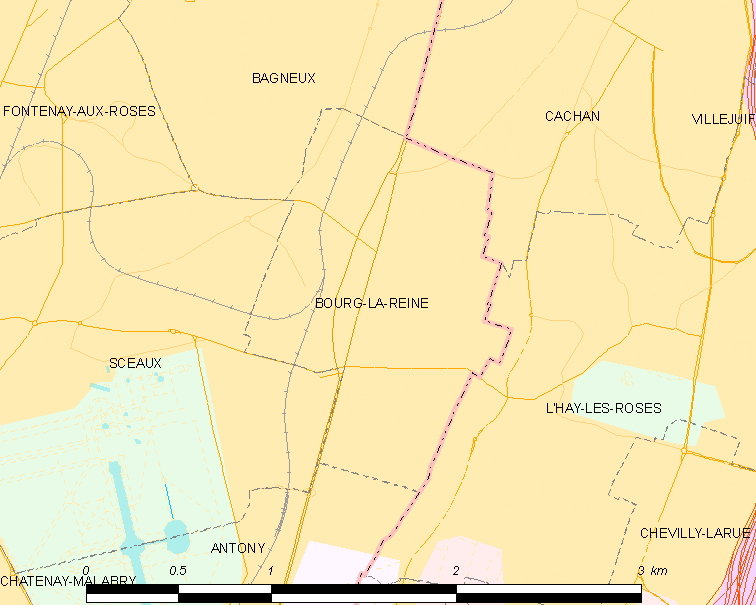 Map of French municipality Bourg-la-Reine